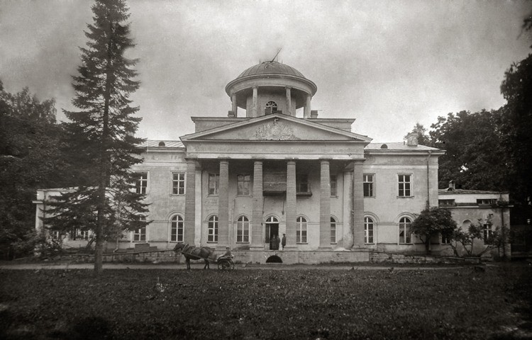 Kotly Palace near St Petersburg